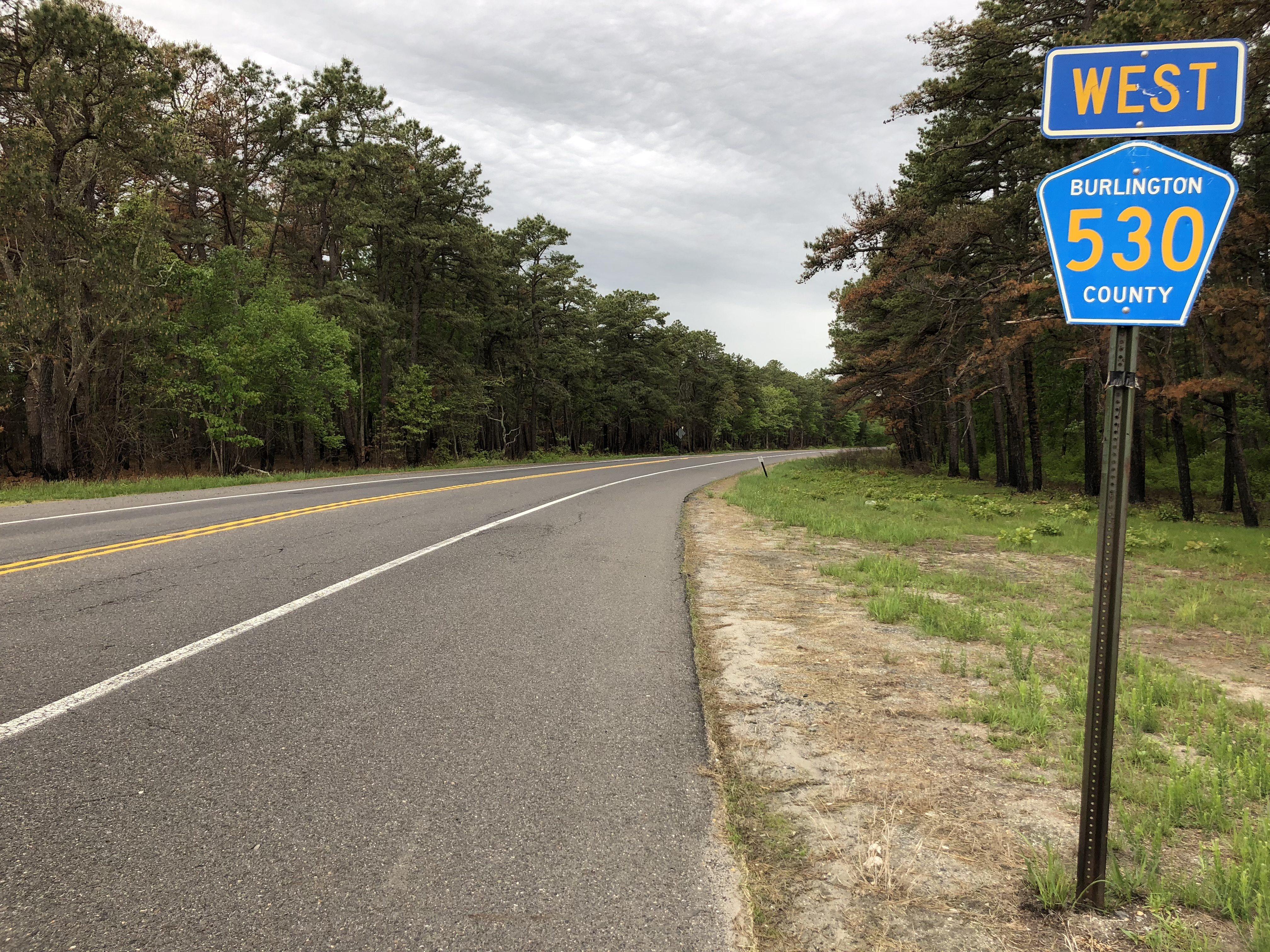 View west along Burlington County Route 530 (Lakehurst Road) at New Jersey State Route 70 in Pemberton Township, Burlington County, New Jersey